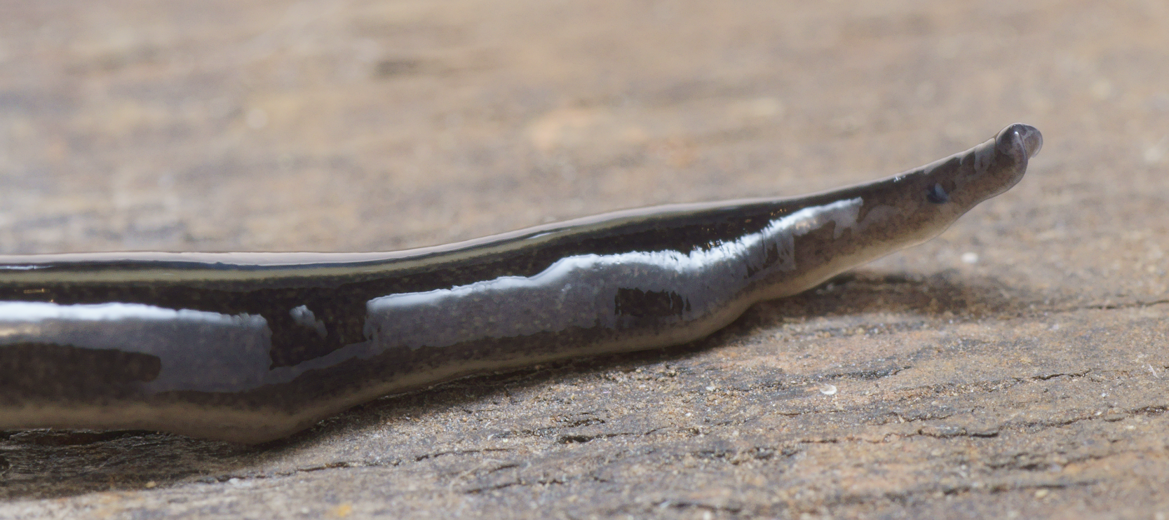 Platydemus manokwari de Beauchamp, 1963. Detail of head, lateral view, showing one of the two slightly protuberant eyes.